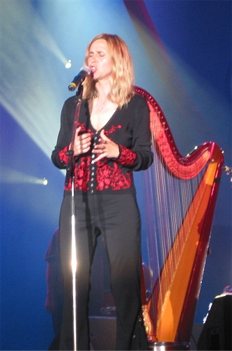 Siân James on stage at the Lorient InterCeltic Festival in August 2002